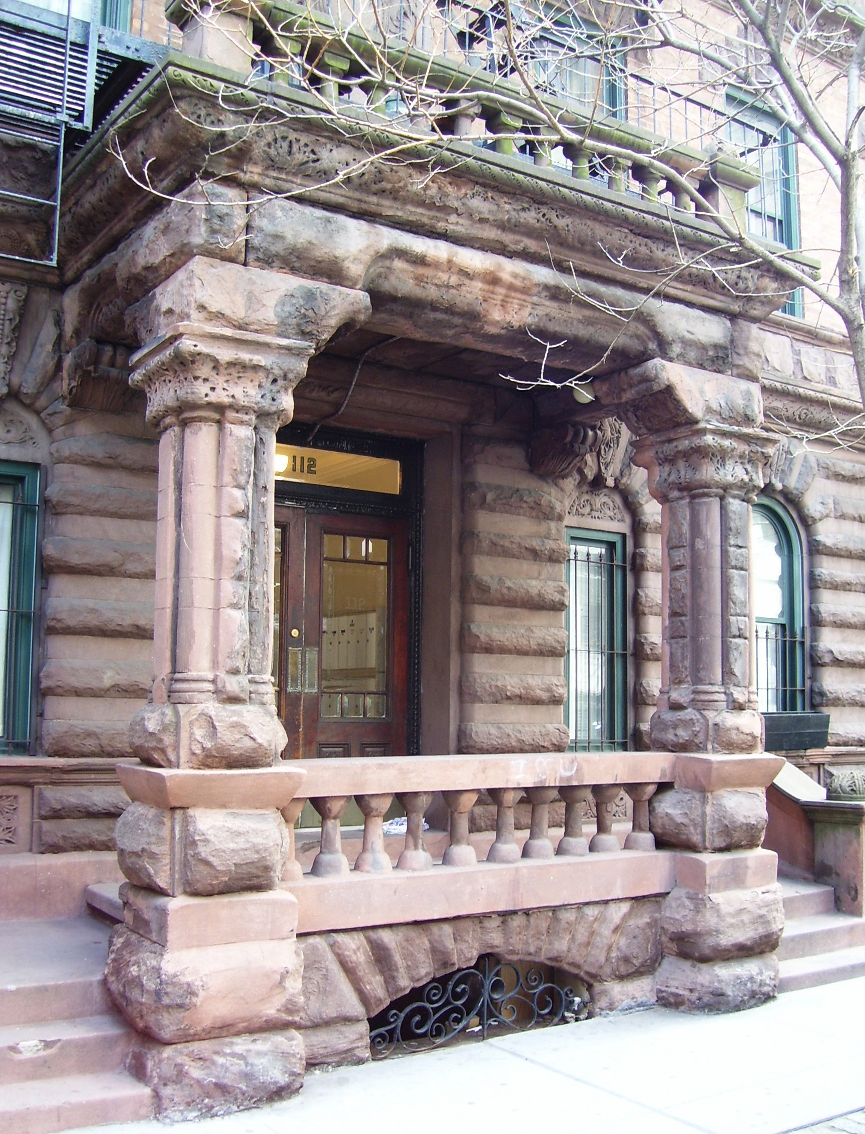 112-114 East 17th Street between Union Square East and Irving Place in the Union Square neighborhood of Manhattan, New York City, an apartment house known as The Fanwood, was build in 1890-91 and was designed by George F. Pelham in the Romanesque/Renaissance Revival styles. It is located within the East 17th Street/Irving Place Historic District. (Source: East 17th Street/Irving Place Historic Distric Designation Report)